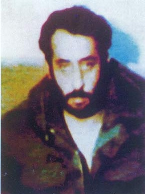 Mugshot of POW Mohammad Javad Tondguyan (1938–?), Iran Minister of Oil. One day after being captured by Iraq.